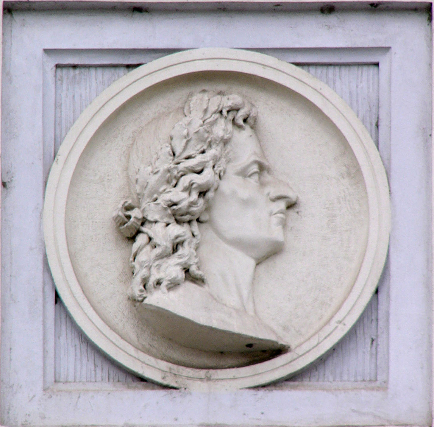 Relief of Matthias Corvinus at Štítného street in Olomouc (Czech Republic).